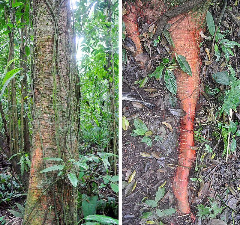 A tree found from Nicaragua to Bolivia. Here in Ecuador it is known as Mashonaste. Valued for lumber, but noted for its orange roots and bark.